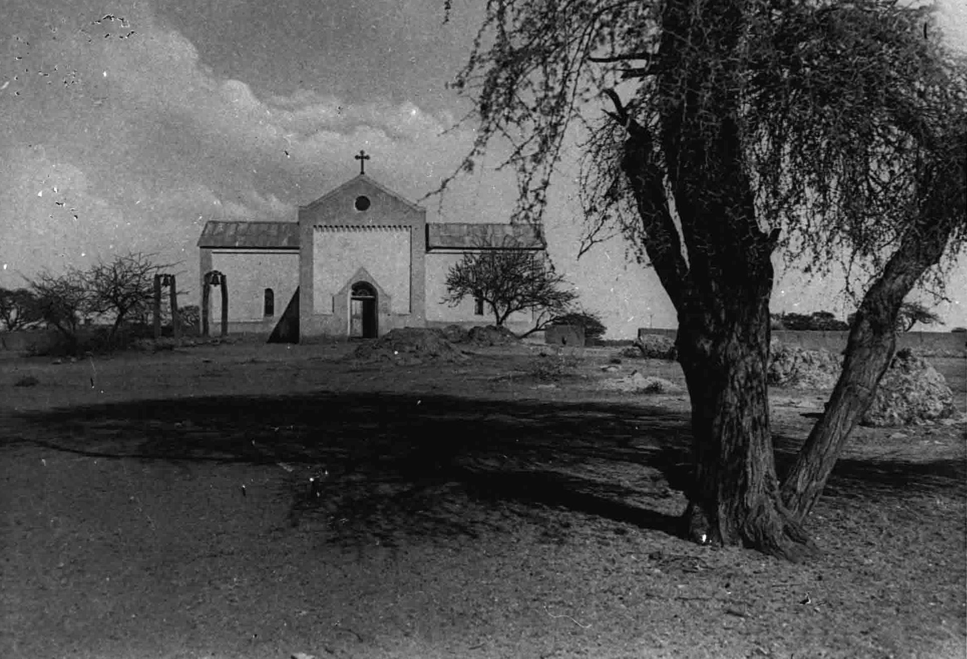 Rhenish Mission Church in Okahandja, built 1870